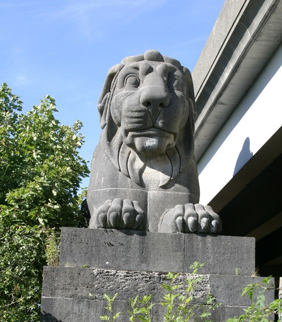 Welsh lion Hidden stone lion 80 tons in weight.